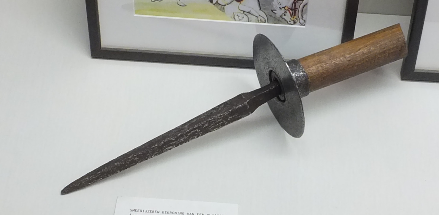 Spear head of a Flemish goedendag (14th century). A goedendag was a weapon originally used by the militias of Medieval Flanders in the 14th century, notably during the Franco-Flemish War. The goedendag was essentially a combination of a club with a spear. Its body was a wooden staff roughly 150 cm long with a diameter of roughly 10 cm. It was wider at one end, and at this end a sharp metal spike was inserted by a tang. Museum Vleeshuis, Dendermonde.